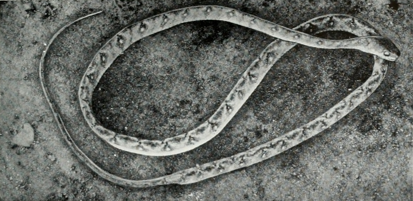 Title: Bulletin of the American Museum of Natural History Year: 1881 (1880s) Authors: Allen, J. A. (Joel Asaph), 1838-1921; American Museum of Natural History Subjects: Natural history; Science Publisher: New York : (American Museum of Natural History) Text Appearing Before Image: Bulletin A. M. N . H. Vol. XLIX, Plate X Text Appearing After Image: '